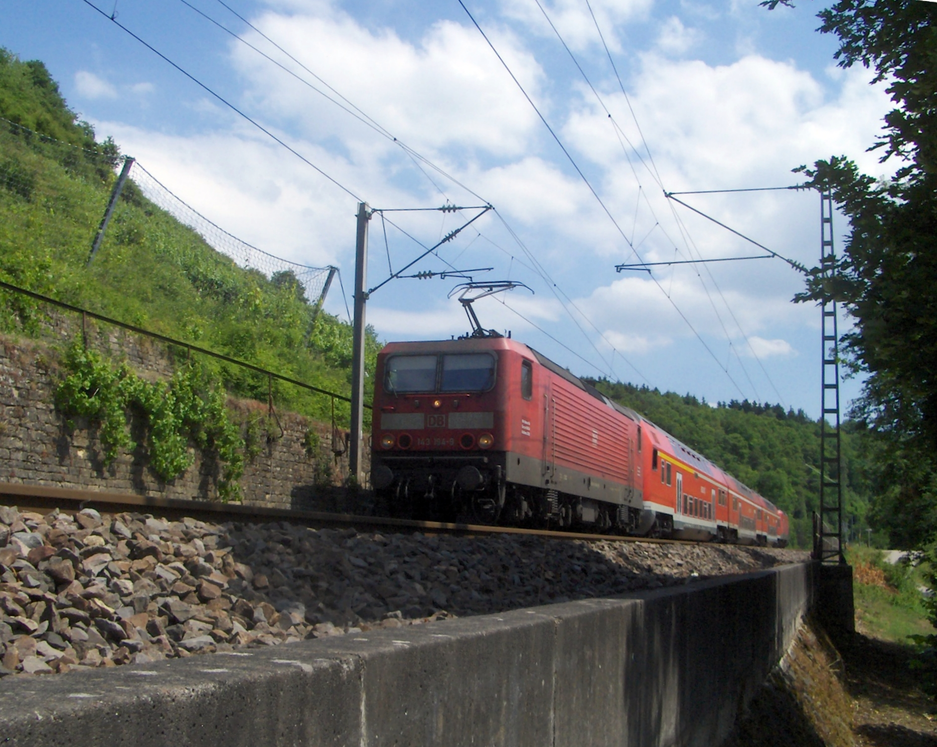 Local train RB 12231 at Wehr (Moselle) on the Obermoselstrecke. Many trains running between Wittlich and Perl had two class 143 engines in 2011 as the class 442 EMUs did not get a federal certification.